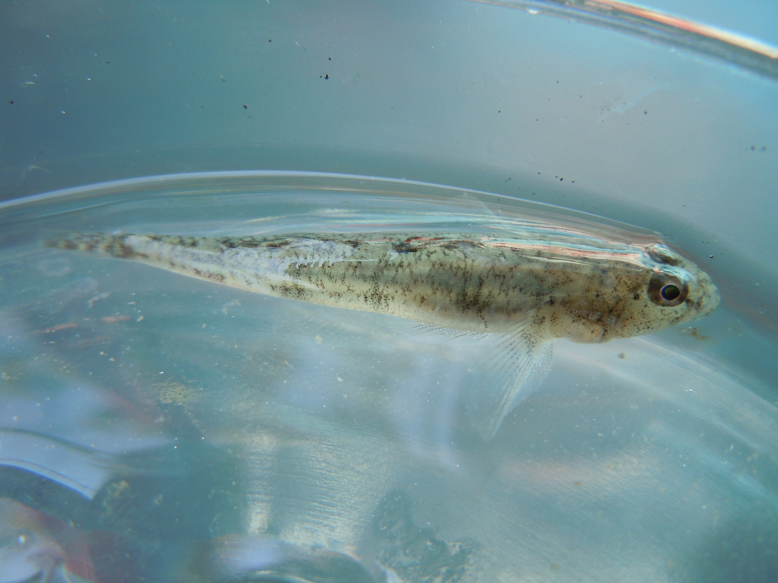 Longtail dwarf goby (Knipowitschia longecaudata) from the Dnieper Estuary, Ukraine